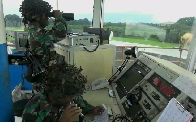 paskhas soldiers air base defense forces